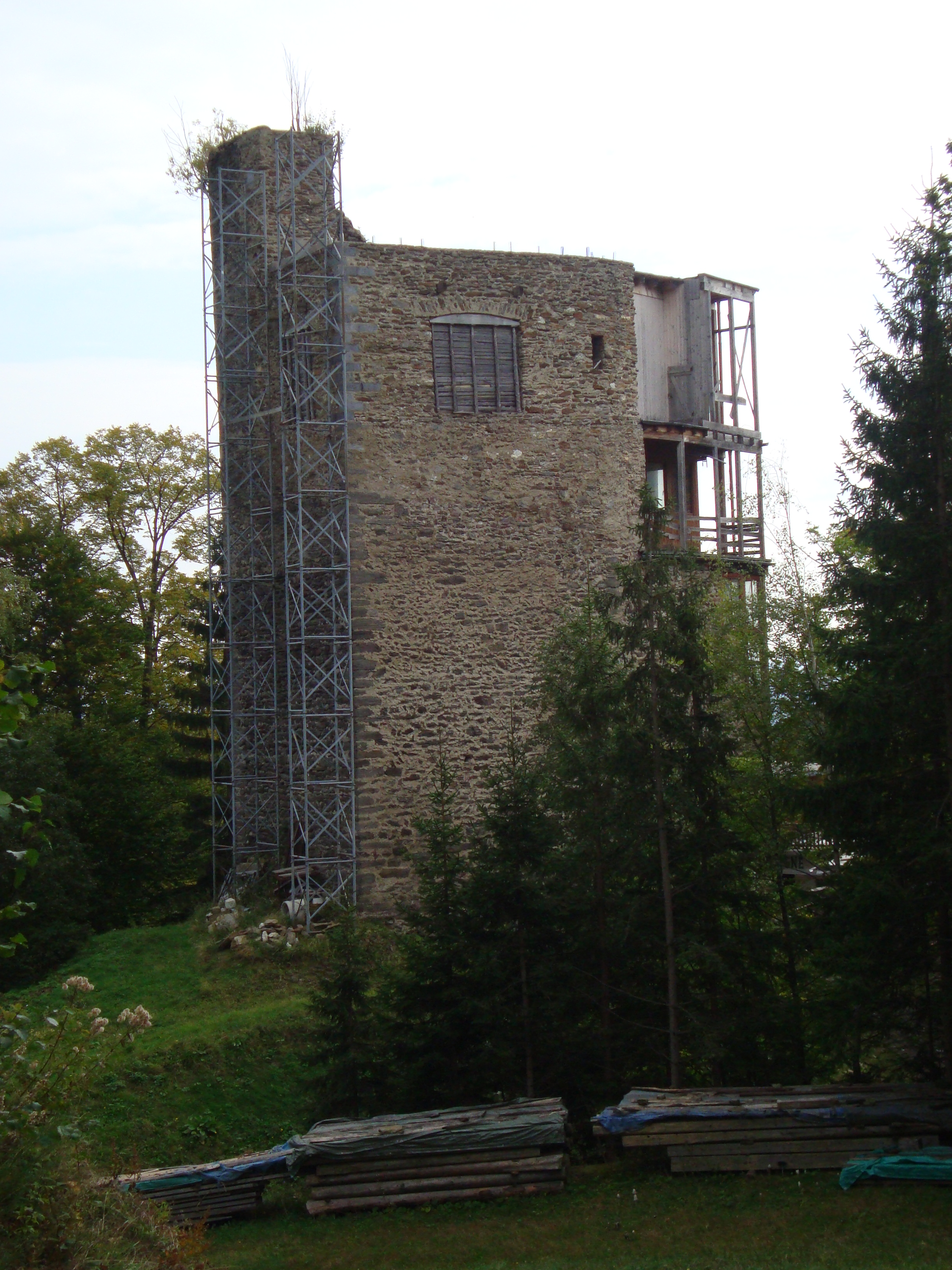 Tower of castle Ehrenfels near St. Radegung bei Graz